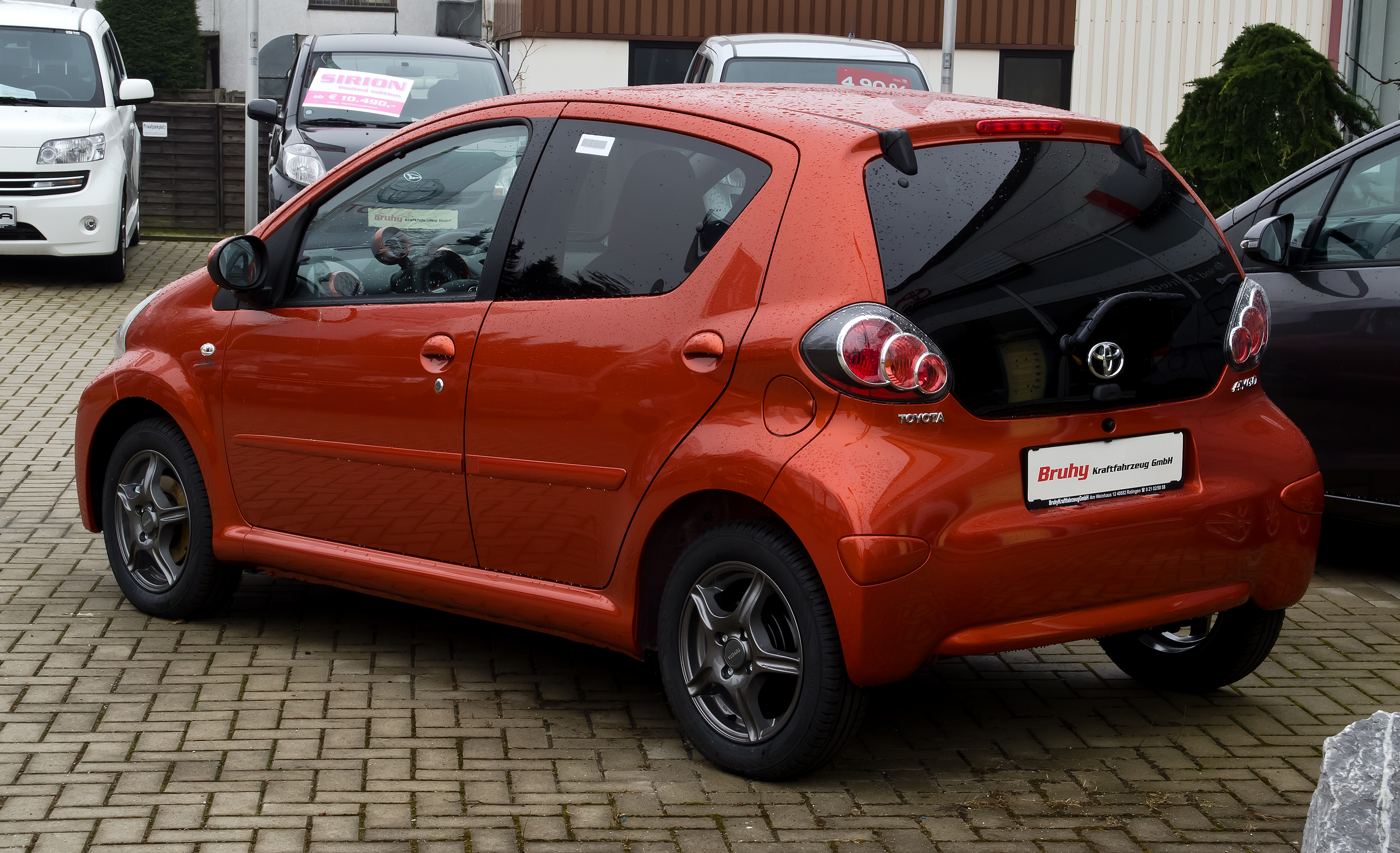 Toyota Aygo 1.0 VVT-i Connect STYLE (2. Facelift)